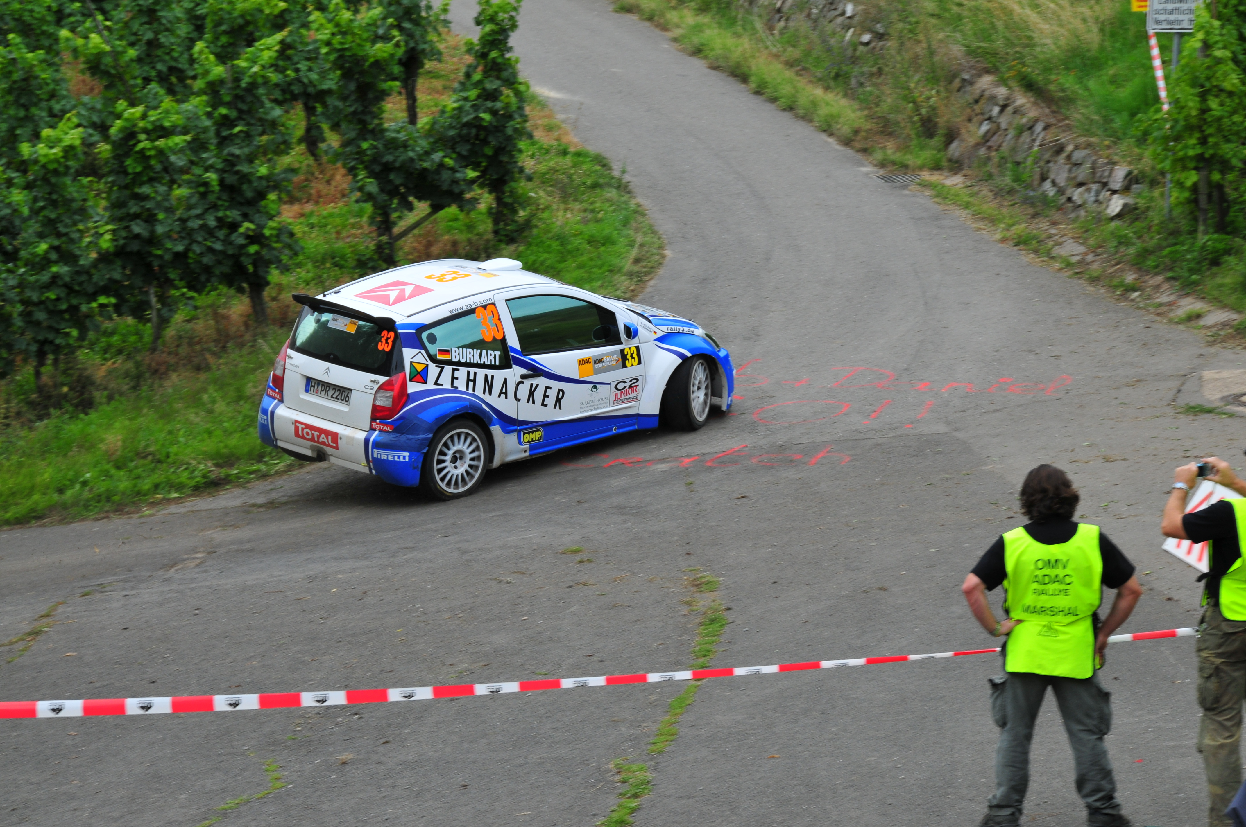 Aaron Burkart driving his Citroën C2 S1600 at the 2008 Rallye Deutschland.